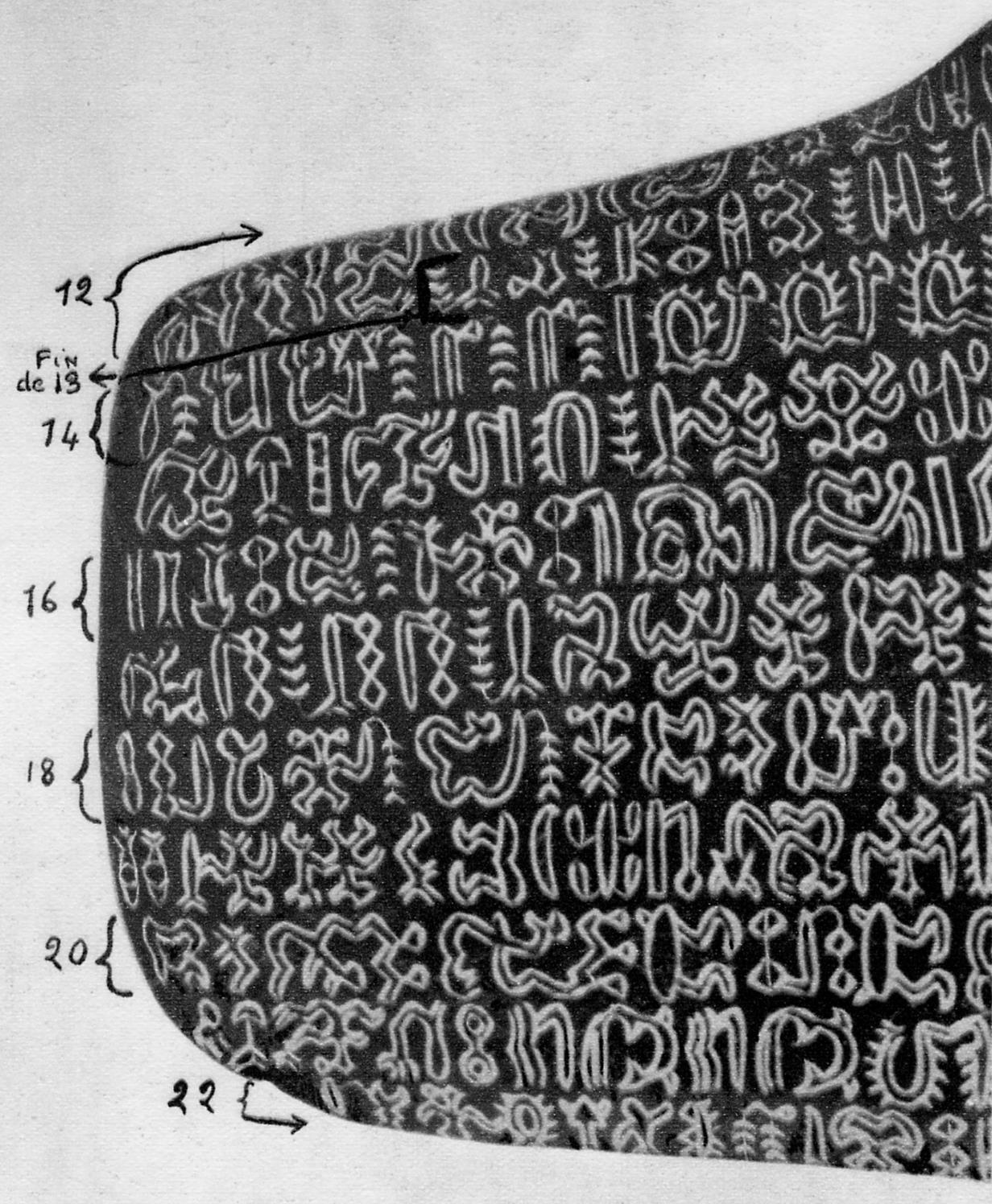 The left end of the verso of rongorongo Tablet B Aruku-Kurenga. (photograph upside down) Original legend: A beautiful tablet from Easter Island, known as Aroukou-Kourenga or Arukukurega. It is commonly known as the “Crescent Tablet” or the “Crescent”, which is a poor choice of name since it creates the confusion discussed above between this tablet and the “crescent” tablet in Figure 152. It would be better, as noted above, to refer to it as the “Racket”. In any case, according to Father Alazard, it is 43 centimeters long and 16 centimeters wide, with ten lines on the front and twelve on the back, with a total of 1,135 signs. This tablet is in the Museum in Braine-le-Comte. The photography in Figure 155, which shows the back of the tablet, provides a very clear depiction of all the signs, without any retouching. It also shows the numbering of the lines and the direction in which each should be read. Figure 156 shows one end of the same side, actual size, in a way that allows the reader to get a very good idea of the size and features of the individual characters. Figure 157 shows the back of the same tablet, at approximately actual size (photograph form the Trocadéro Museum).